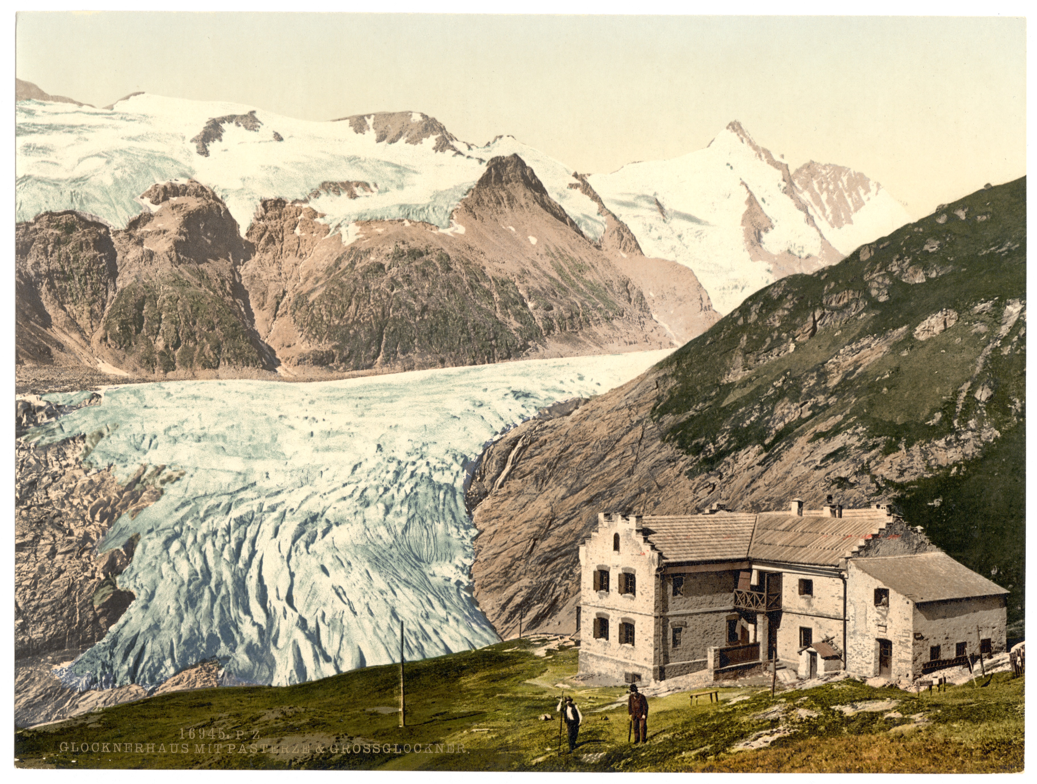 Forms part of: Views of the Austro-Hungarian Empire in the Photochrom print collection.; Print no. "16945".; Title from the Detroit Publishing Co., Catalogue J-foreign section, Detroit, Mich. : Detroit Publishing Company, 1905.